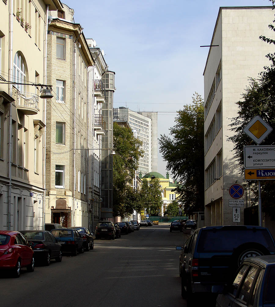 Kamennaya Sloboda Lane, Moscow, corner of Garden Ring. Grey building on the right is Embassy of Singapore. Yellow house with a green dome in far back is U.S. ambassador residence (Spaso House, former Nikolay Vtorov house)